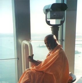 Photo of Srila Bhakti Vaibhava Puri Maharaj taken by and copyright user:Siyavash. This photo was taken at World Trade Center Tower 2 August 25, 2001. Photo by C. Siyavash Sharp.